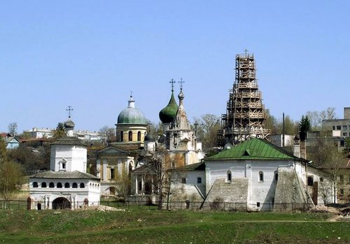 Town of Staritsa. Assumption monastery on the left bank of the Volga River, shot from the right bank. Shot was made May 2002 by Alexandre V. Tchaykin.